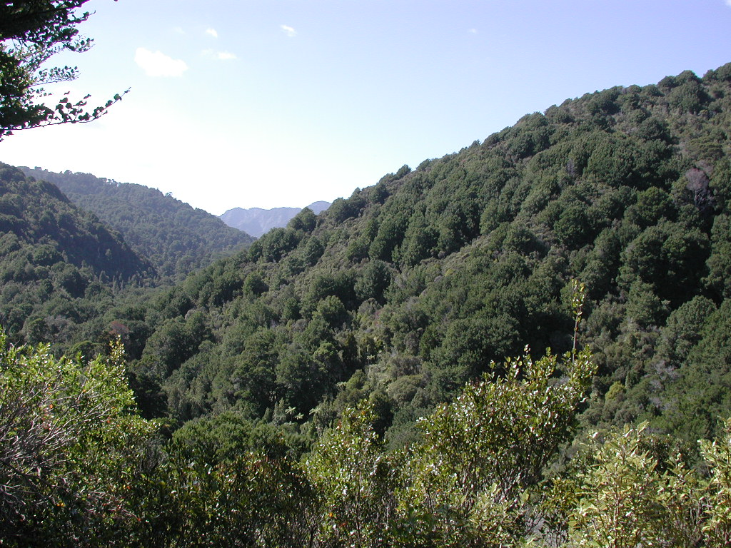 View up Catchpool Valley in Rimutaka Forest Park.